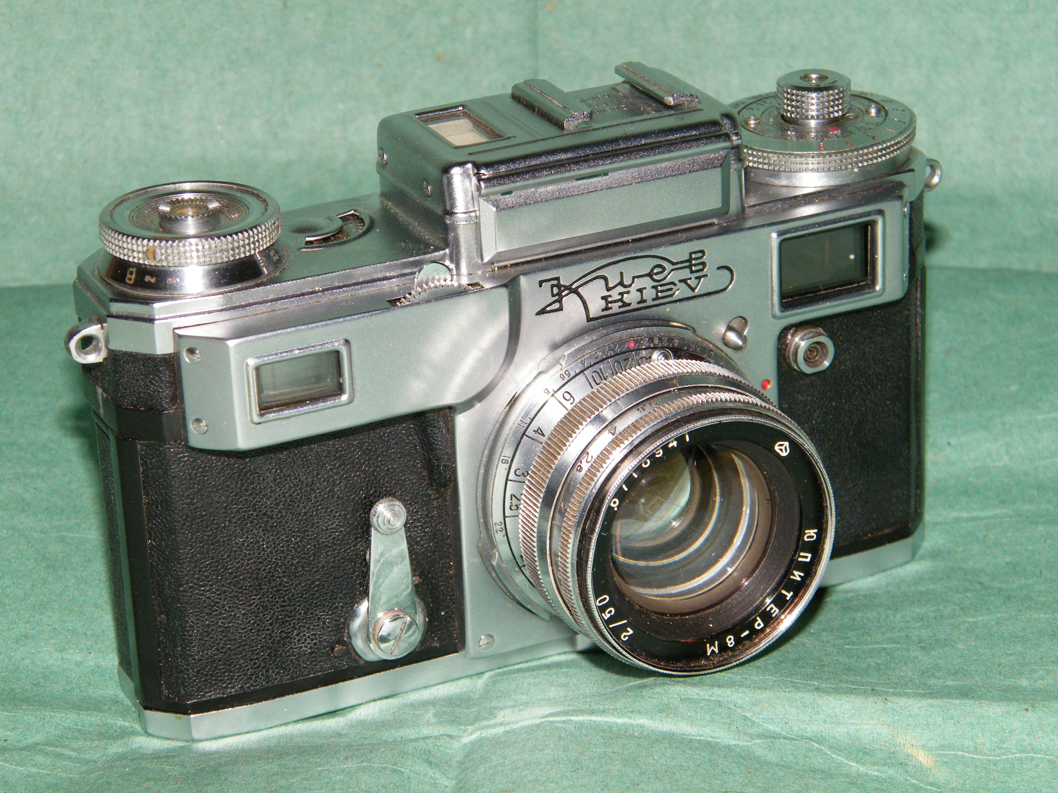 Kiev camera 1963